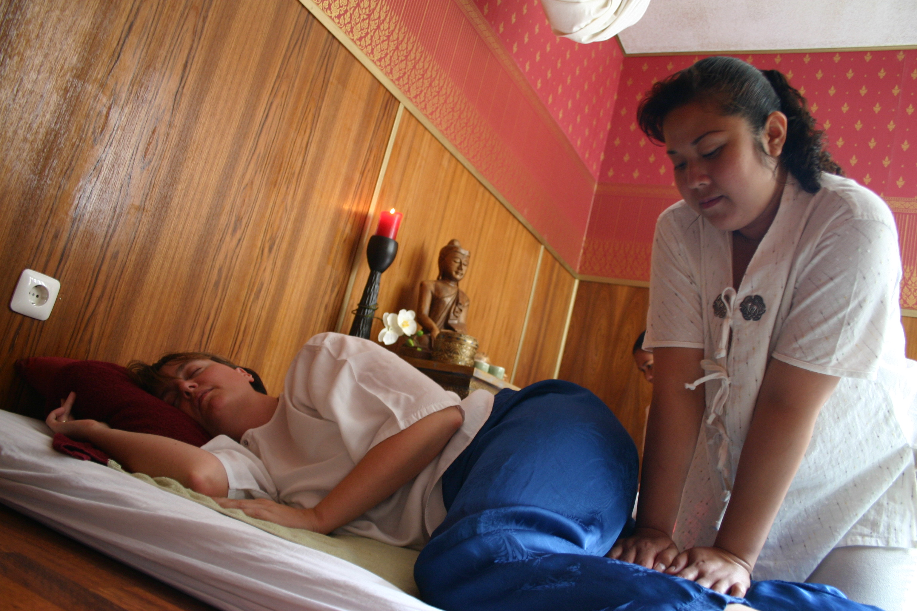 Nuat phaen boran or Thai massage, side-lying position in Frankfurt, Germany.